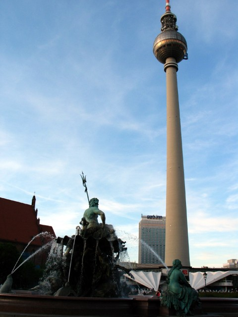 Berlin television tower